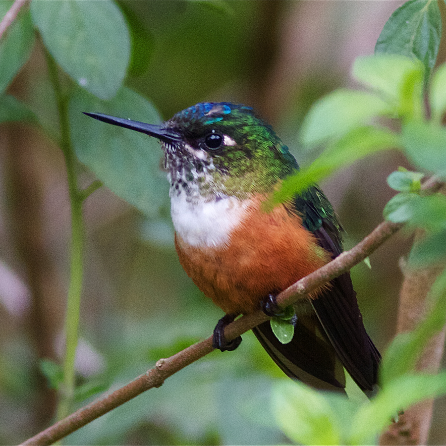 Violet-tailed Sylph (female) photo taken in the lower Tandayapa Valley (west slope), Ecuador.